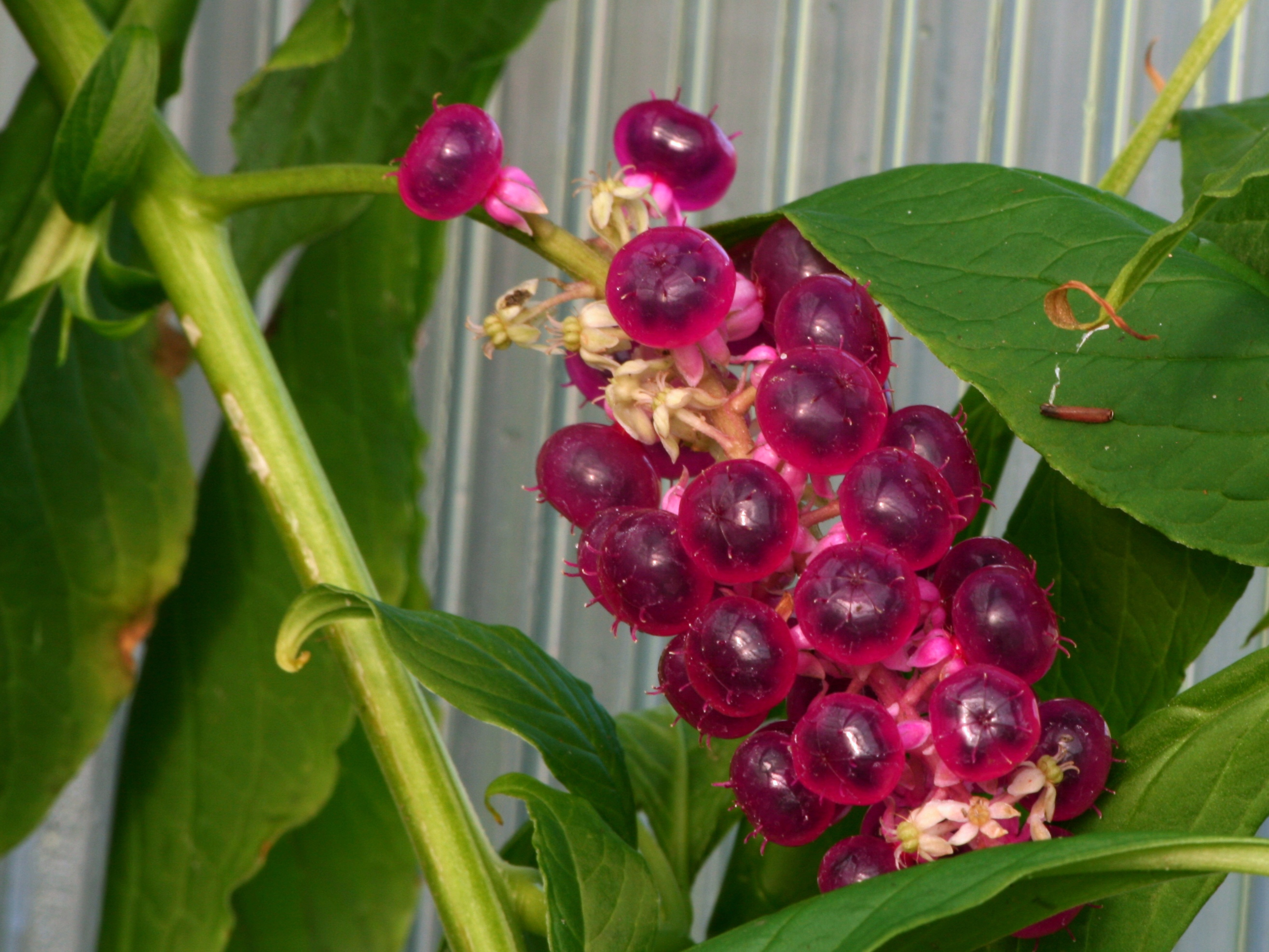 Phytolacca rugosa fruits, Botanical Garden Teplice, Czech Republic